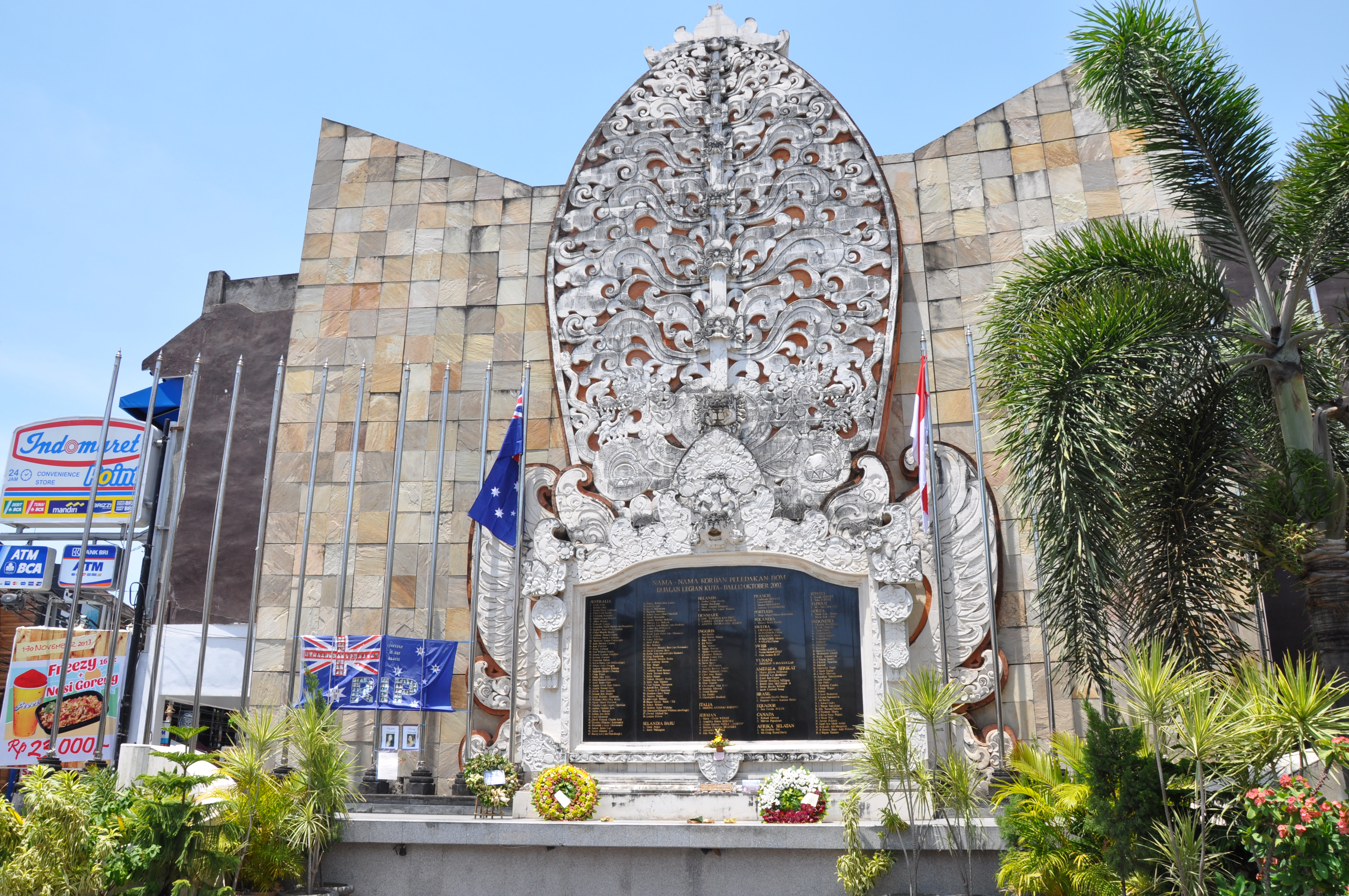 The 2002 Bali bombings occurred on 12 October 2002 in the tourist district of Kuta on the Indonesian island of Bali. The attack killed 202 people (including 88 Australians, 38 Indonesians, 27 Britons, 7 Americans, 6 Swedes and 3 Danes). A further 209 people were injured. Various members of Jemaah Islamiyah, a violent Islamist group, were convicted in relation to the bombings, including three individuals who were sentenced to death. The attack involved the detonation of three bombs: a backpack-mounted device carried by a suicide bomber; a large car bomb, both of which were detonated in or near popular nightclubs in Kuta; and a third much smaller device detonated outside the United States consulate in Denpasar, causing only minor damage. An audio-cassette purportedly carrying a recorded voice message from Osama Bin Laden stated that the Bali bombings were in direct retaliation for support of the United States' war on terror and Australia's role in the liberation of East Timor.On 9 November 2008, Imam Samudra, Amrozi Nurhasyim and Huda bin Abdul Haq were executed by firing squad on the island prison of Nusakambangan at 00:15 local time (17:15 UTC). On 9 March 2010, Dulmatin, nicknamed "the Genius" – believed to be responsible for setting off one of the Bali bombs with a mobile phone – was killed in a shoot-out with Indonesian police in Jakarta